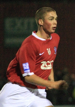 Richard Brodie playing for York City against Droylsden at Bootham Crescent, York on 26 December 2007